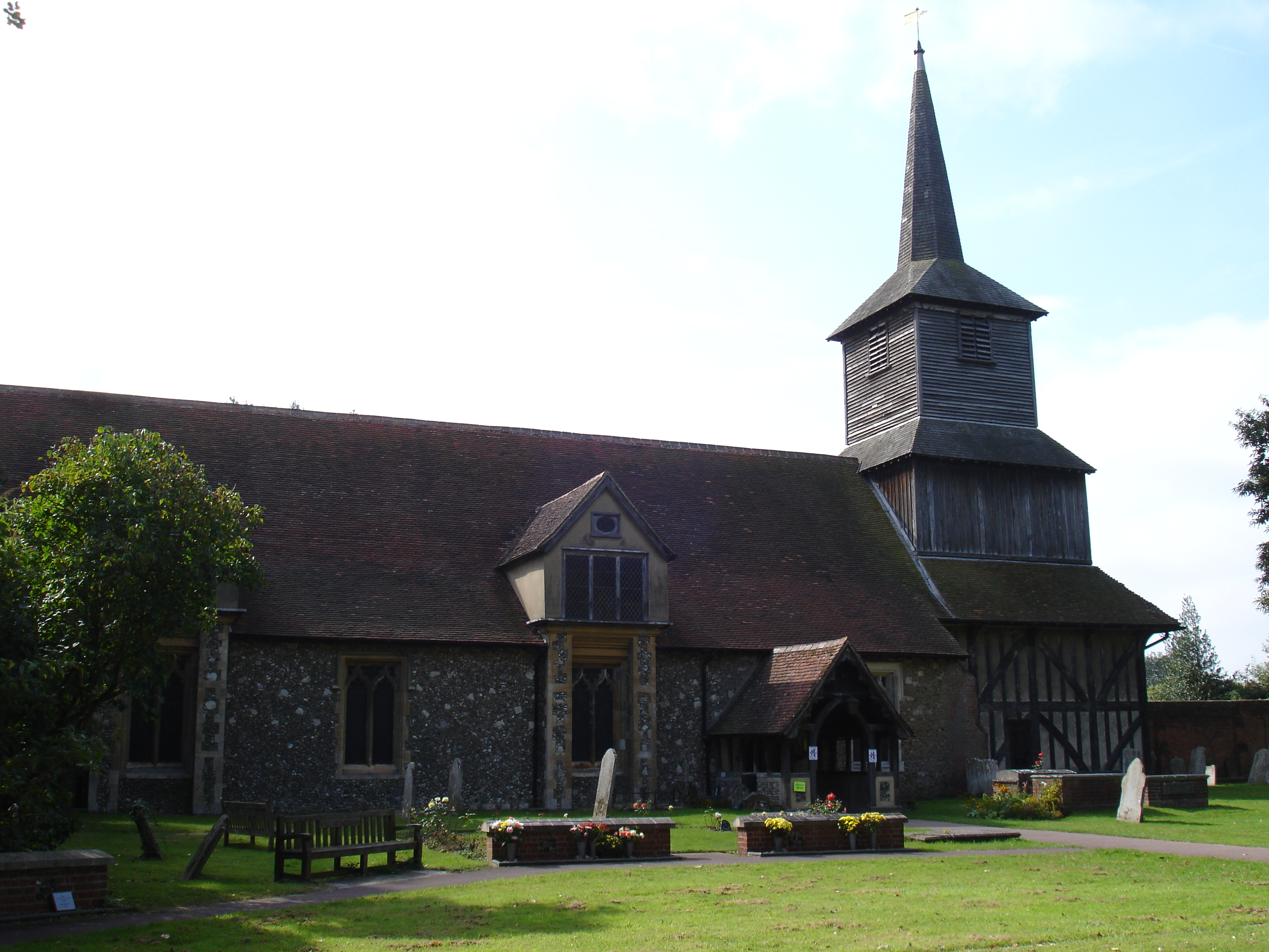 Photograph of Blackmore Priory, Essex, England